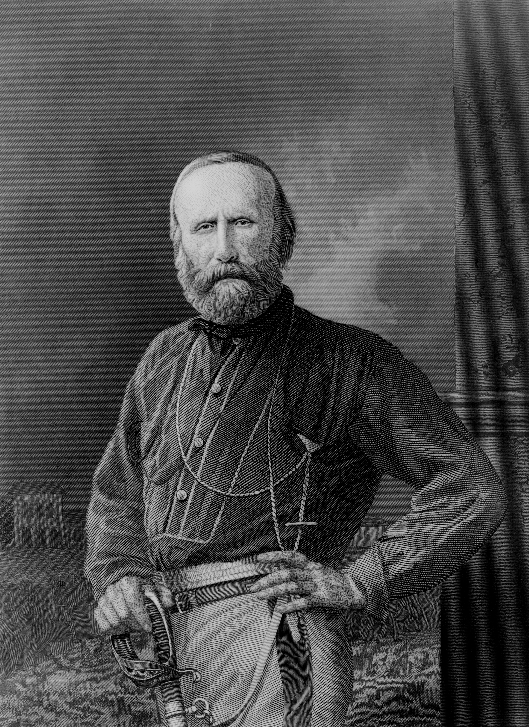 Giuseppe Garibaldi (1808-1882), half-length portrait, posed to the left, face front, holding sword.